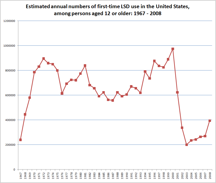 Annual estimates of the number of people in the USA aged 12 years and older who use LSD for the first time that year, from 1967 to 2008. Numbers are from reports of the US Substance Abuse and Mental Health Services Administration.[1][2] Note, these numbers are estimates, not precise measurements. 95% confidence intervals are likely quite wide. Note, the survey design changed multiple times over the years, including in 1979, 1994, 1999 and 2002, so estimates may not be comparable year to year.[3][4] Note, psilocybin mushrooms and MDMA (ecstasy) have become more popular than LSD. Among US residents aged 12 or older who first used "hallucinogens" (defined as LSD, PCP, MDMA (Ecstasy), peyote, mescaline, and psilocybin found in mushrooms) in 2004 or 2005, 52% used psilocybin mushrooms, 43% used ecstasy, and only 14% used LSD.[5]